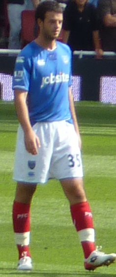 Marc Wilson is an Irish footballer.